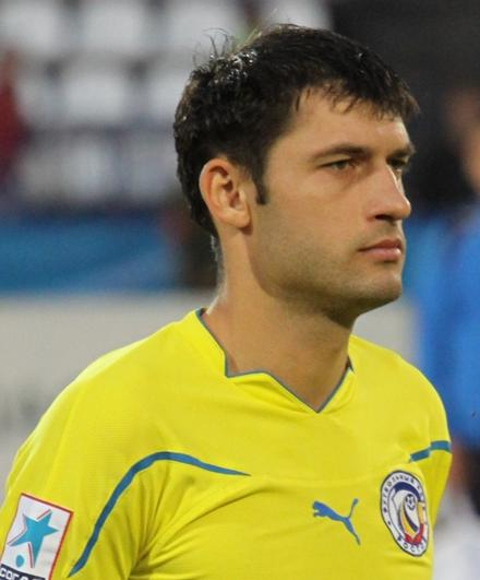 Alexandru Gaţcan playing for FC Rostov.